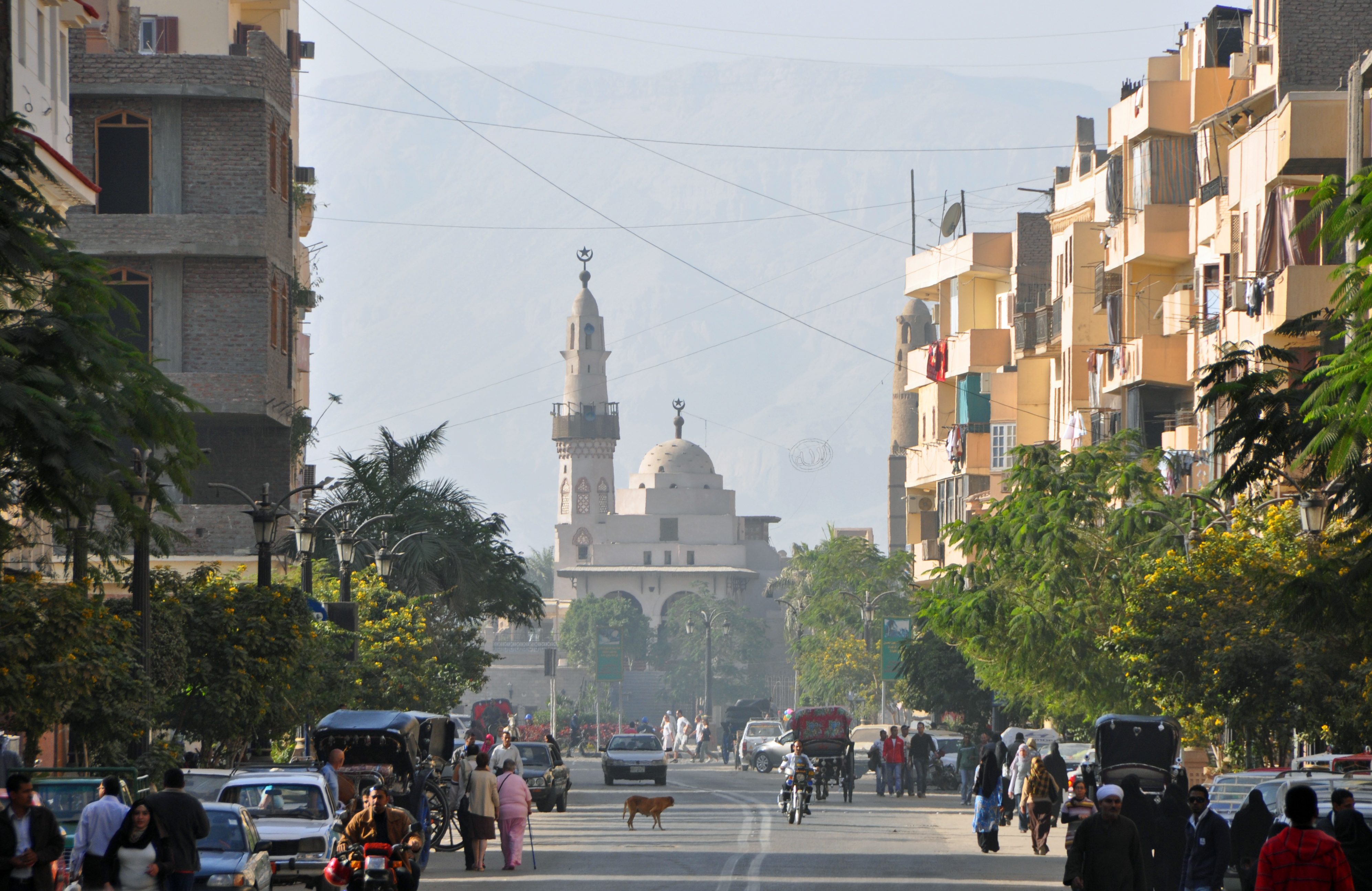 Luxor (Egypt): Sharia al-Mahatta (Station Street) or Saad Zaghlul Street; in the background: the Abu el-Haggag mosque